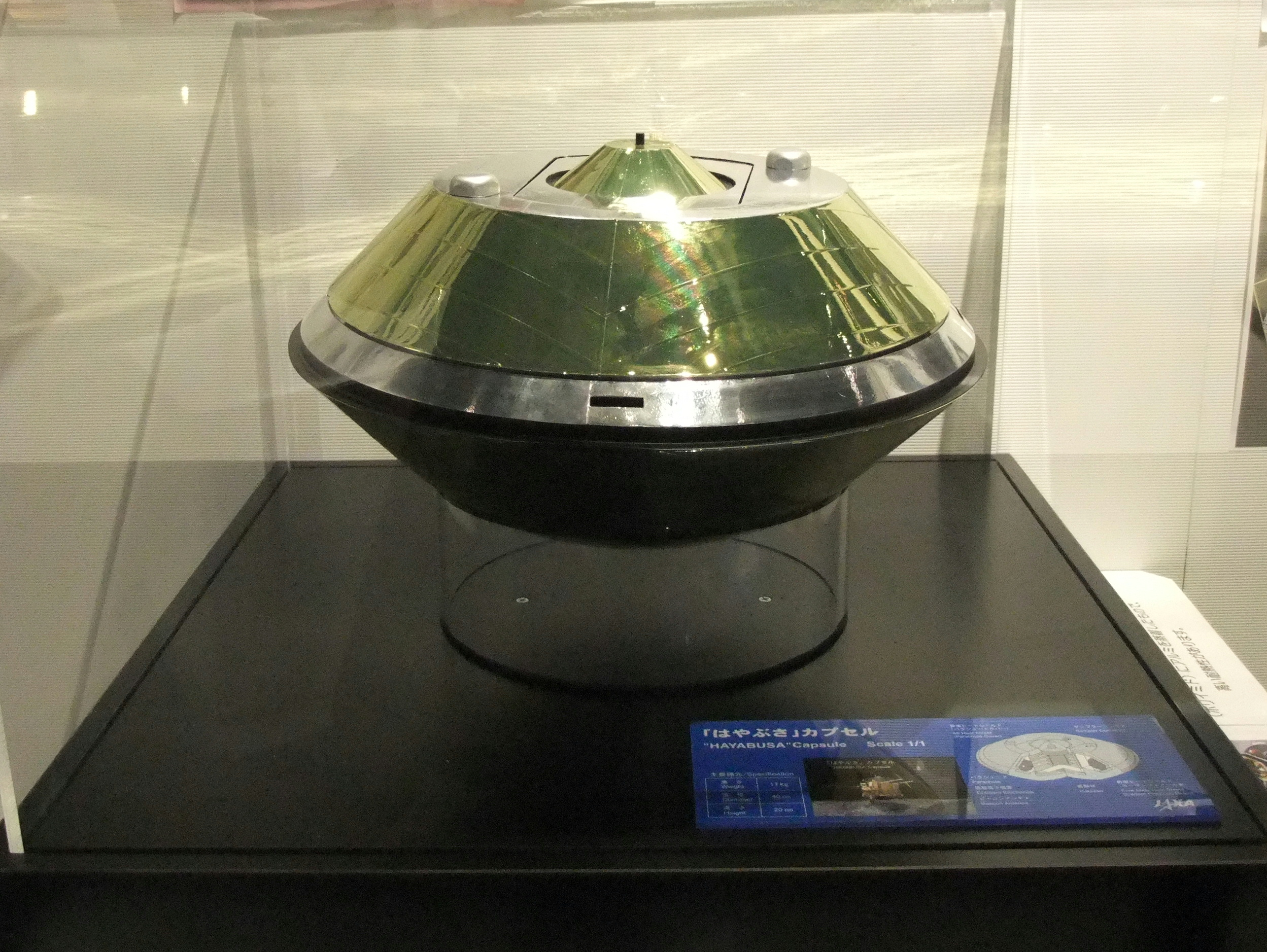 "JAXA i" are on display in a replica of Hayabusa capsule. At Marunouchi Oazo